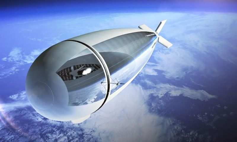 Stratobus